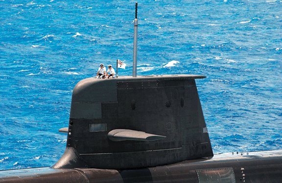 The Collins-class Australian Submarine HMAS Sheean (SSG-&&) joins a flotilla off the coast of Kauai, Hawaii, with numerous other international naval vessels.